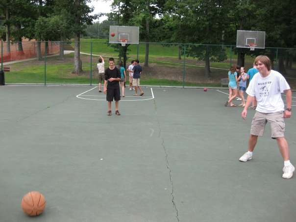 Larry ball at SEP (Virginia)